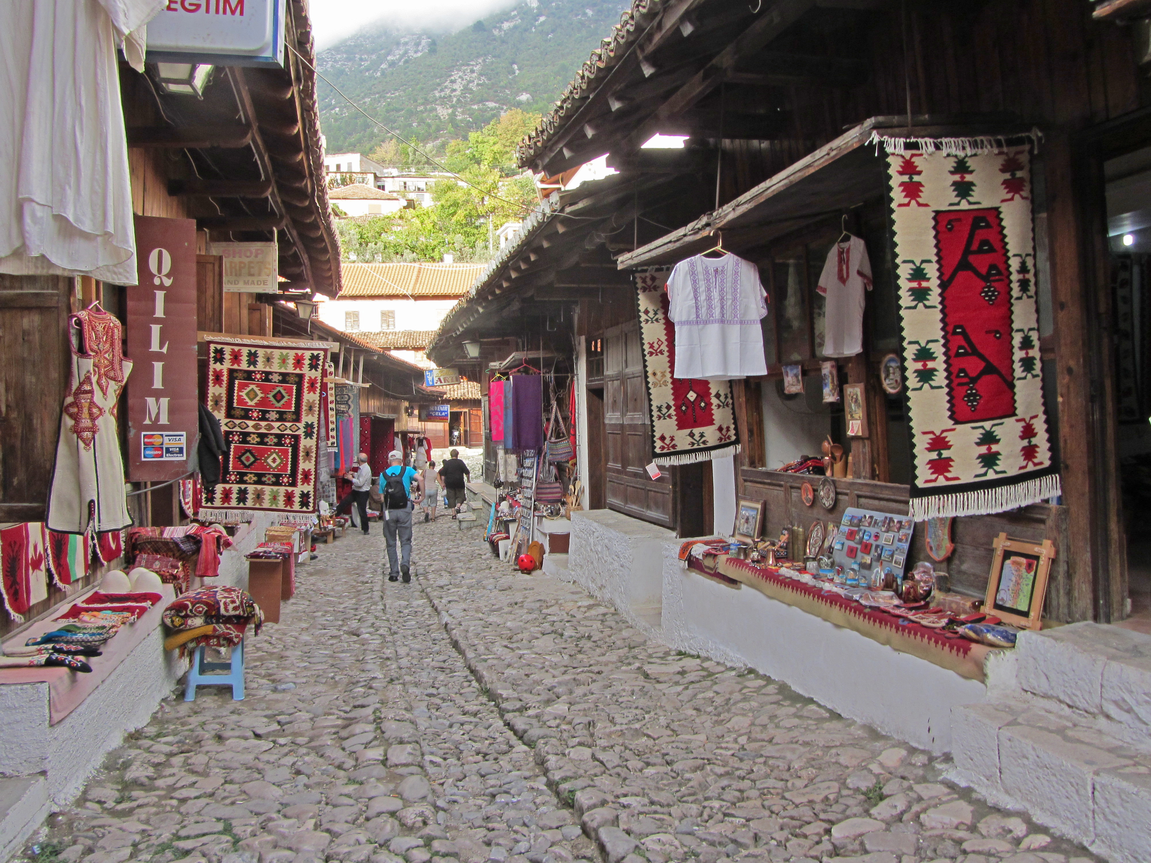 Bazaar in Krujë, Albania